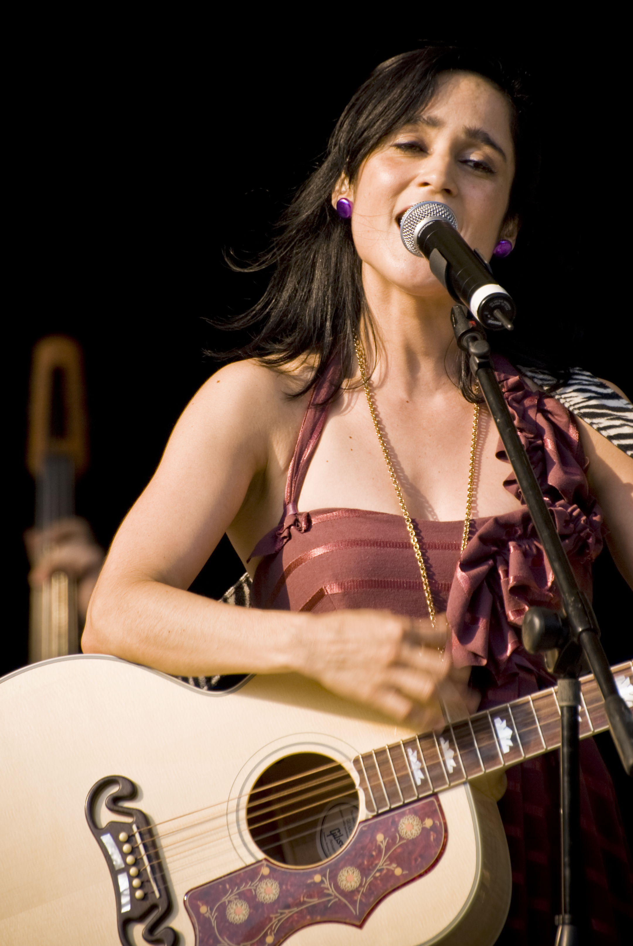 Concert Given at Central Park, NYC. Summer of 2008